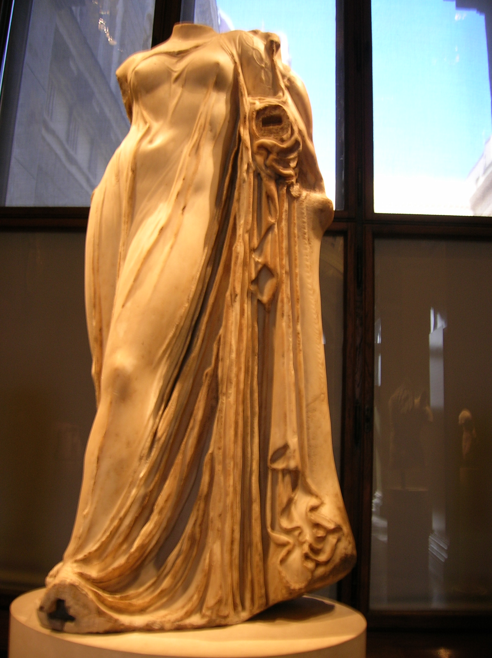 Statue of Venus. Kunsthistorisches Museum, Vienna. It is easy to see how the arm of the statue was once attached.